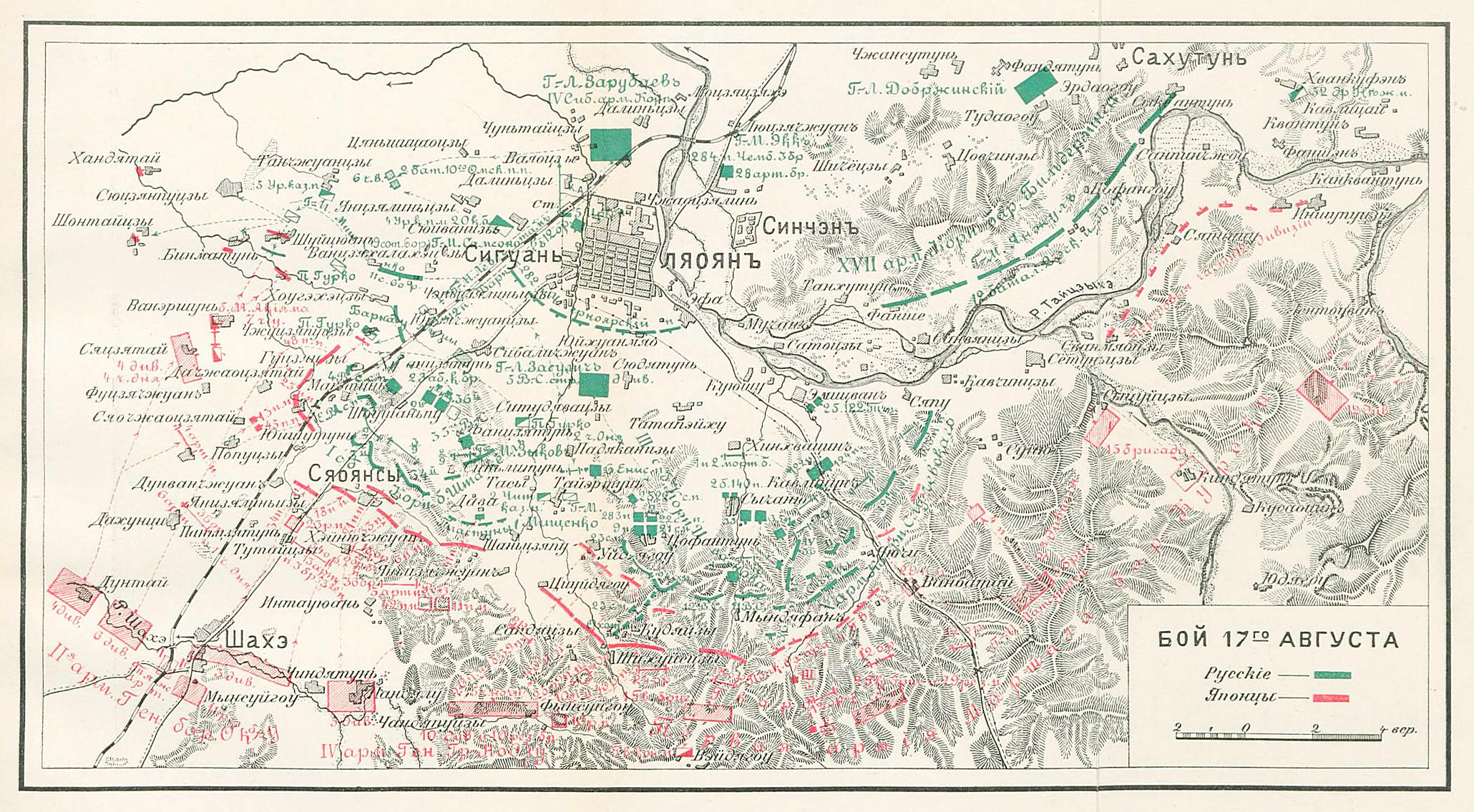 Battle of Liaoyang